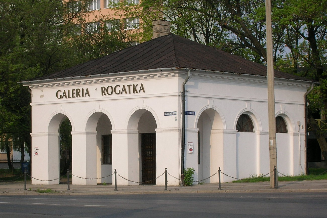 Tollhouse in Radom, Poland